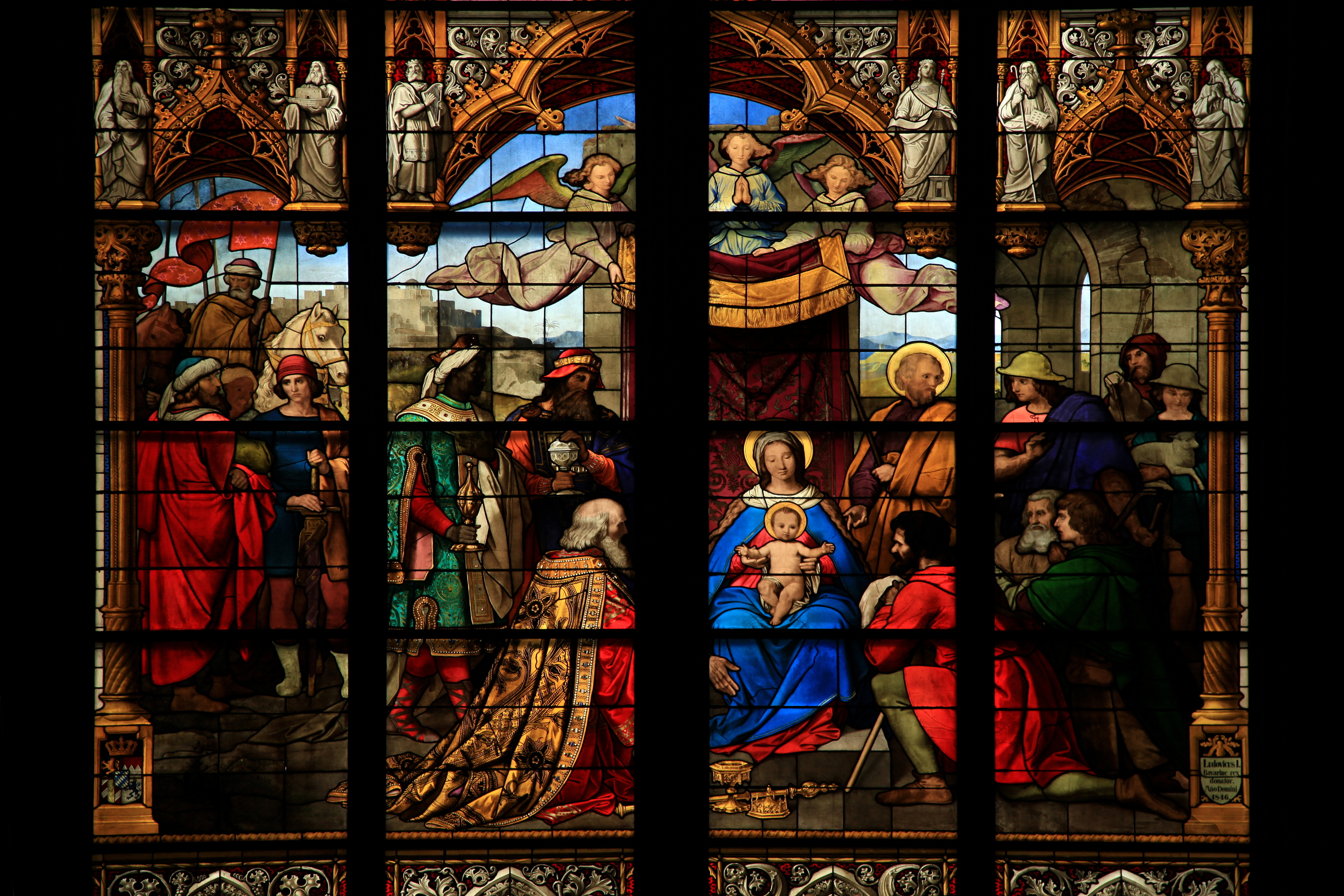 Stained glass window of the Cologne Cathedral